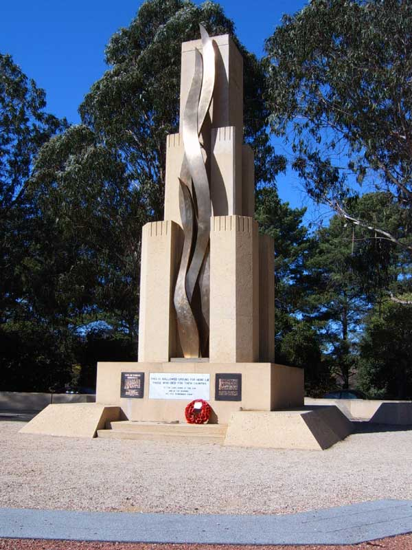 Rats of Tobruk Memorial on ANZAC Parade, the principal ceremonial amd memorial avenue of Canberra, the national capital city of Australia.